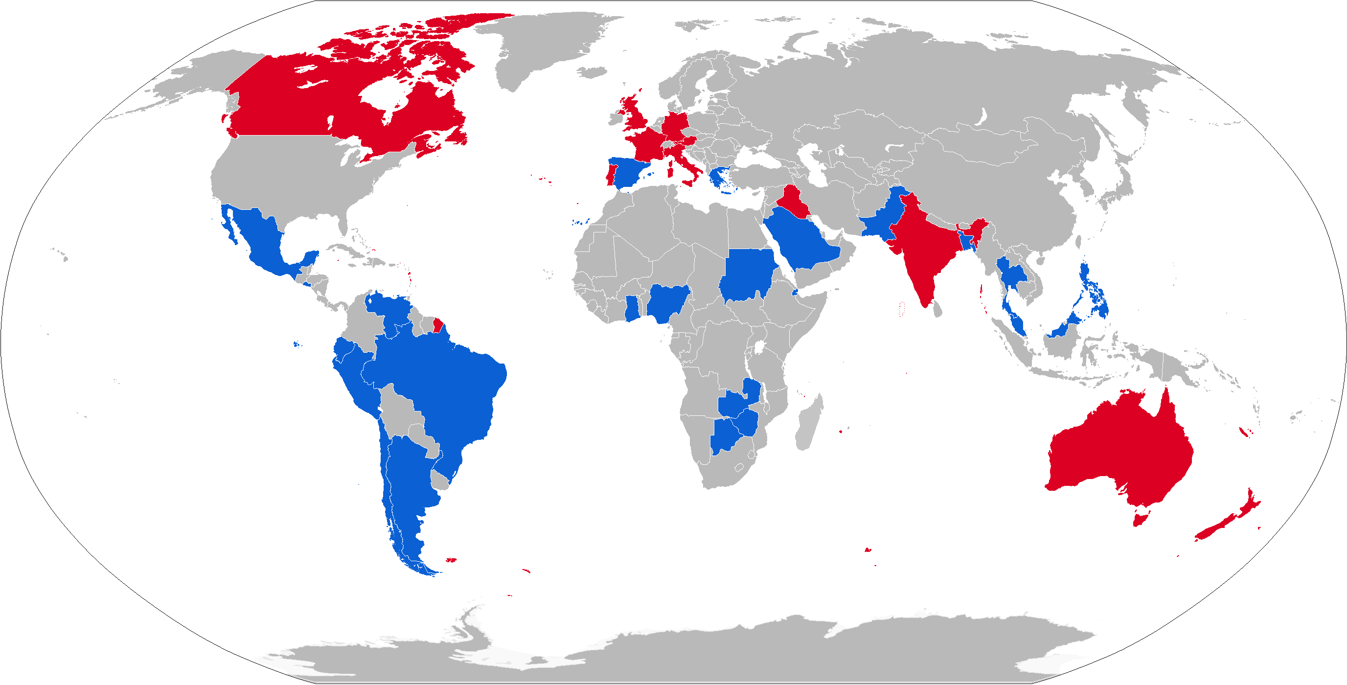 Users of the OTO Melara Mod 56 howitzer 2010